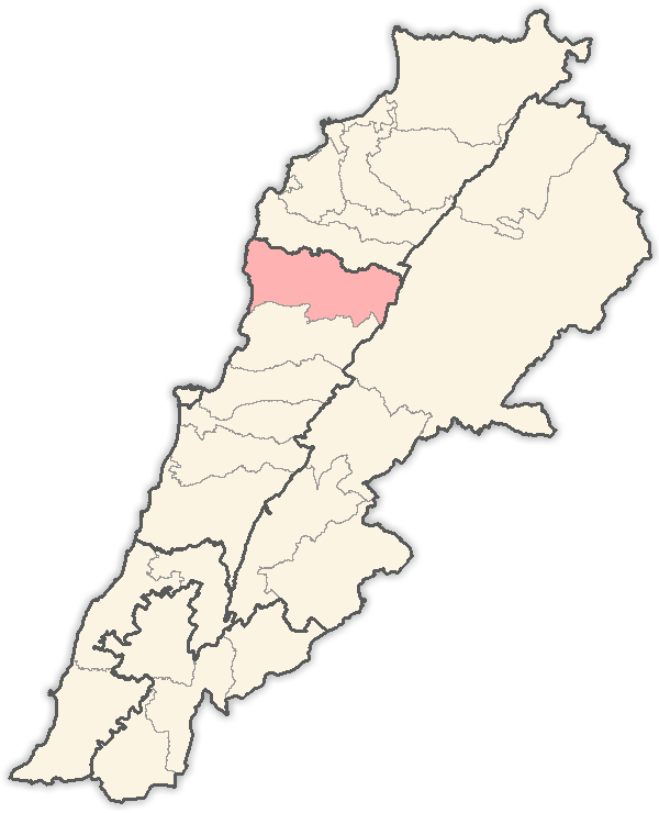 Map of districts in Lebanon, highlighting the Byblos District